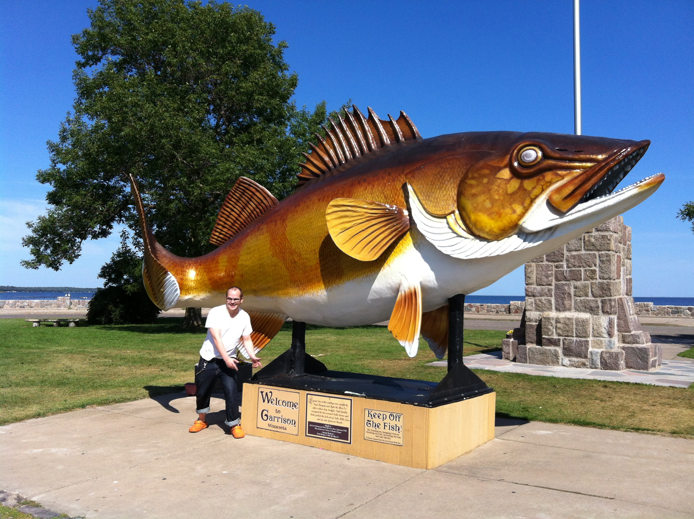 Lake Mille Lacs Fish Statue in Garrison, Minnesota